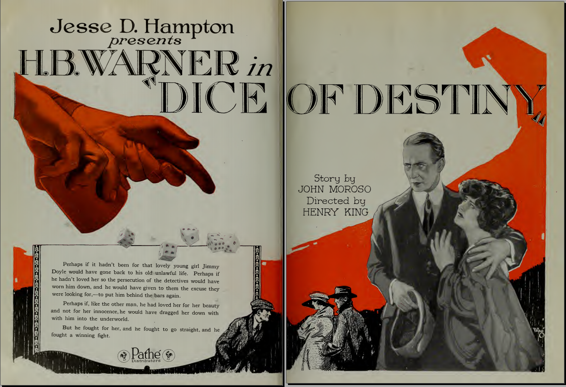 H.B. Warner in Dice of Destiny directed by Henry King 1920